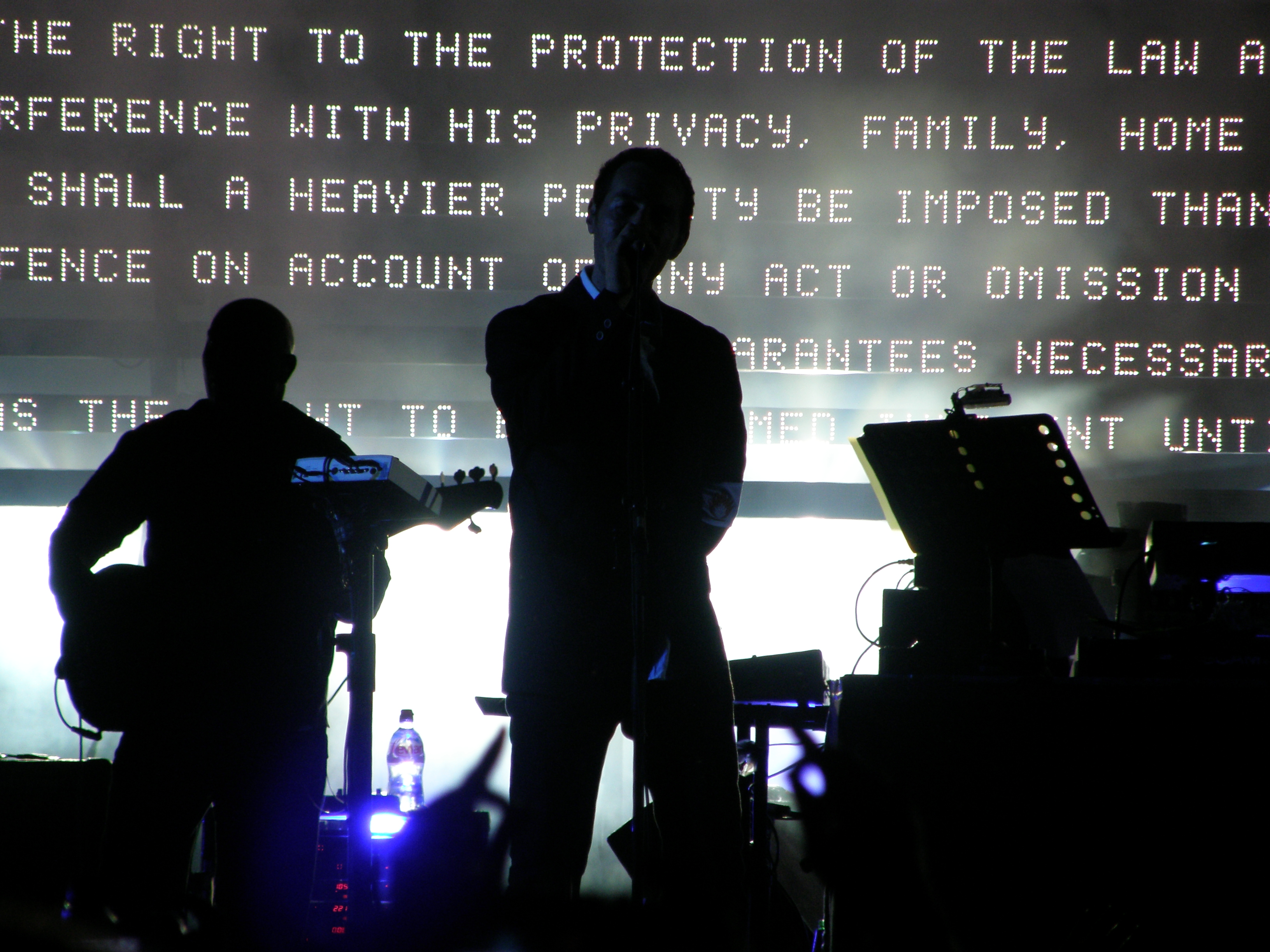 Massive Attack at Stereoleto festival (Saint-Petersburg, 12 June 2008)